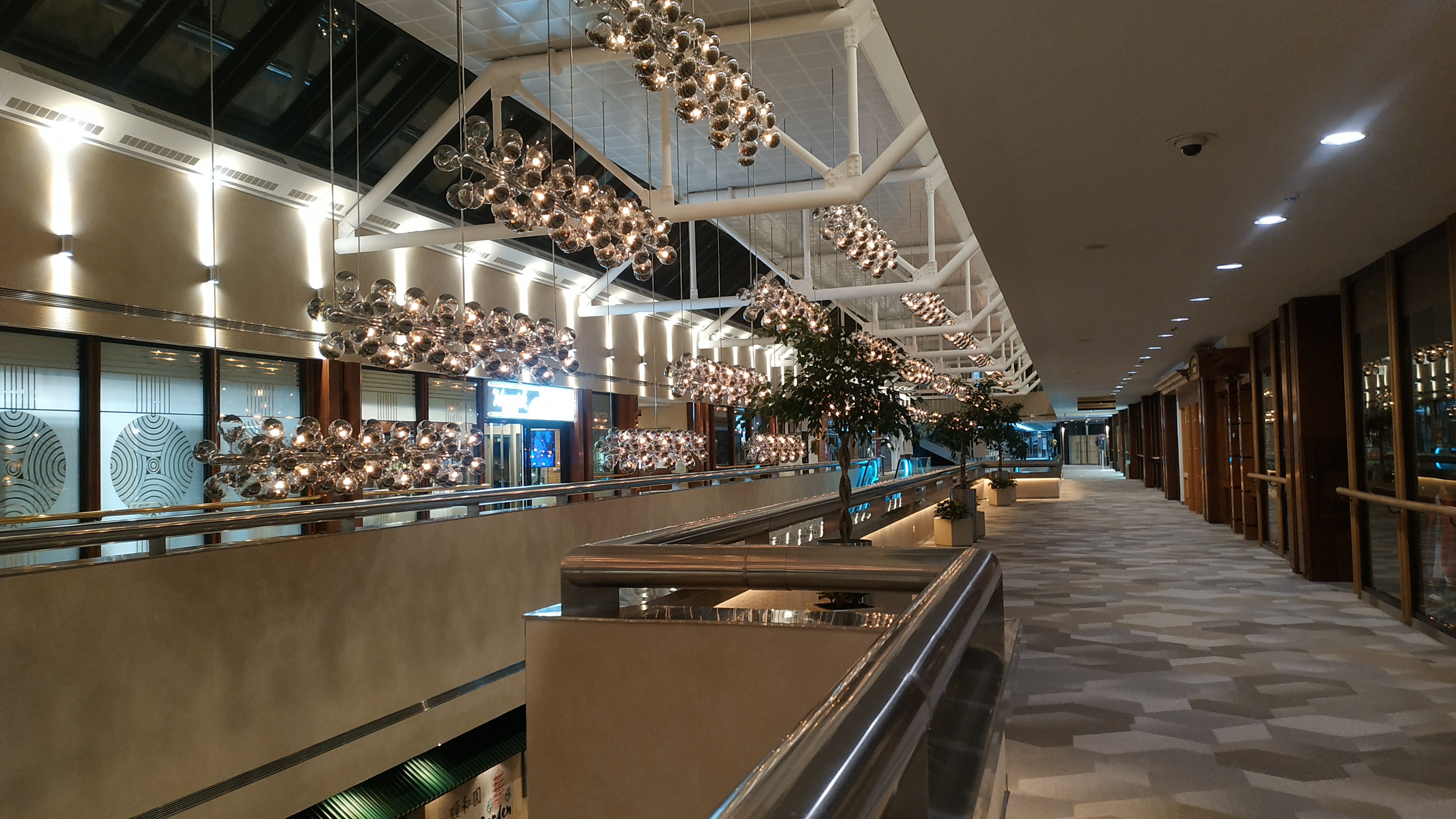 Interiors of world trade center Moscow